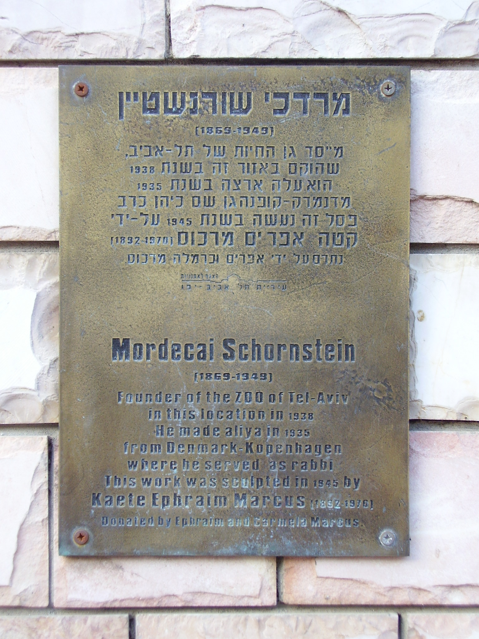 The memorial plaque at Gan Ha'Ir under the sculpture of Rabbi Mordecai Schornstein, founder of the Tel Aviv zoo, Israel